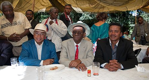 zafy et pierrot